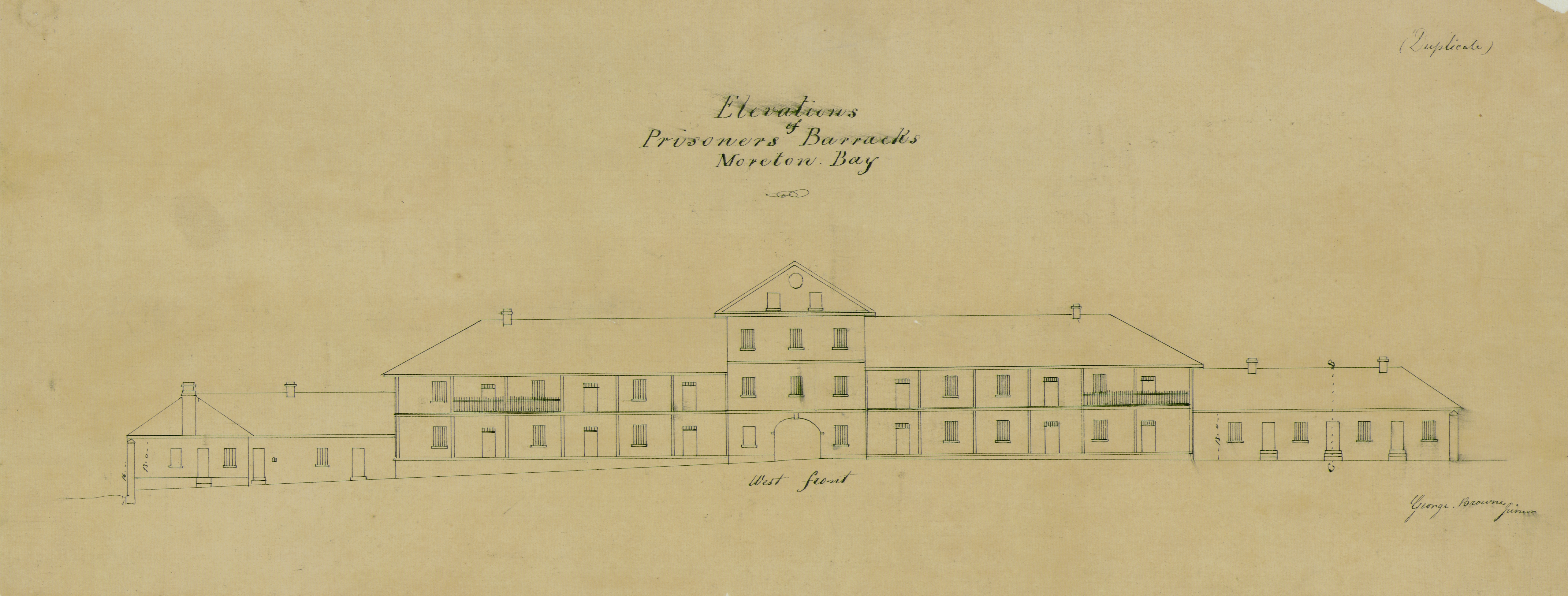 Drawing showing west elevations of Prisoners' Barracks, Moreton Bay, circa 1839